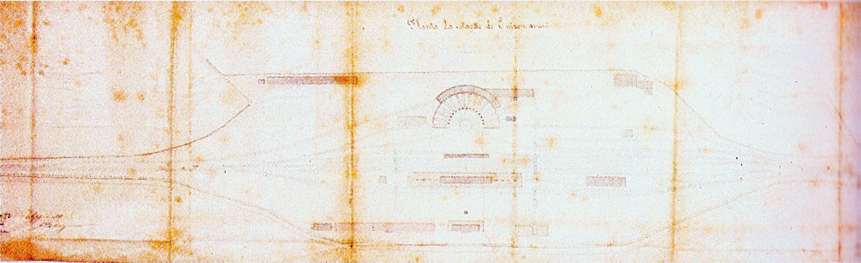 Layout of the Entroncamento Railway Station, in Portugal, in 1873.